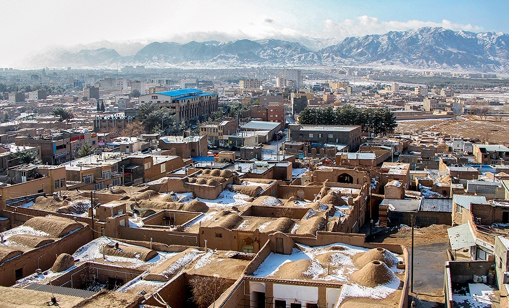 Snowy day of Birjand. main album